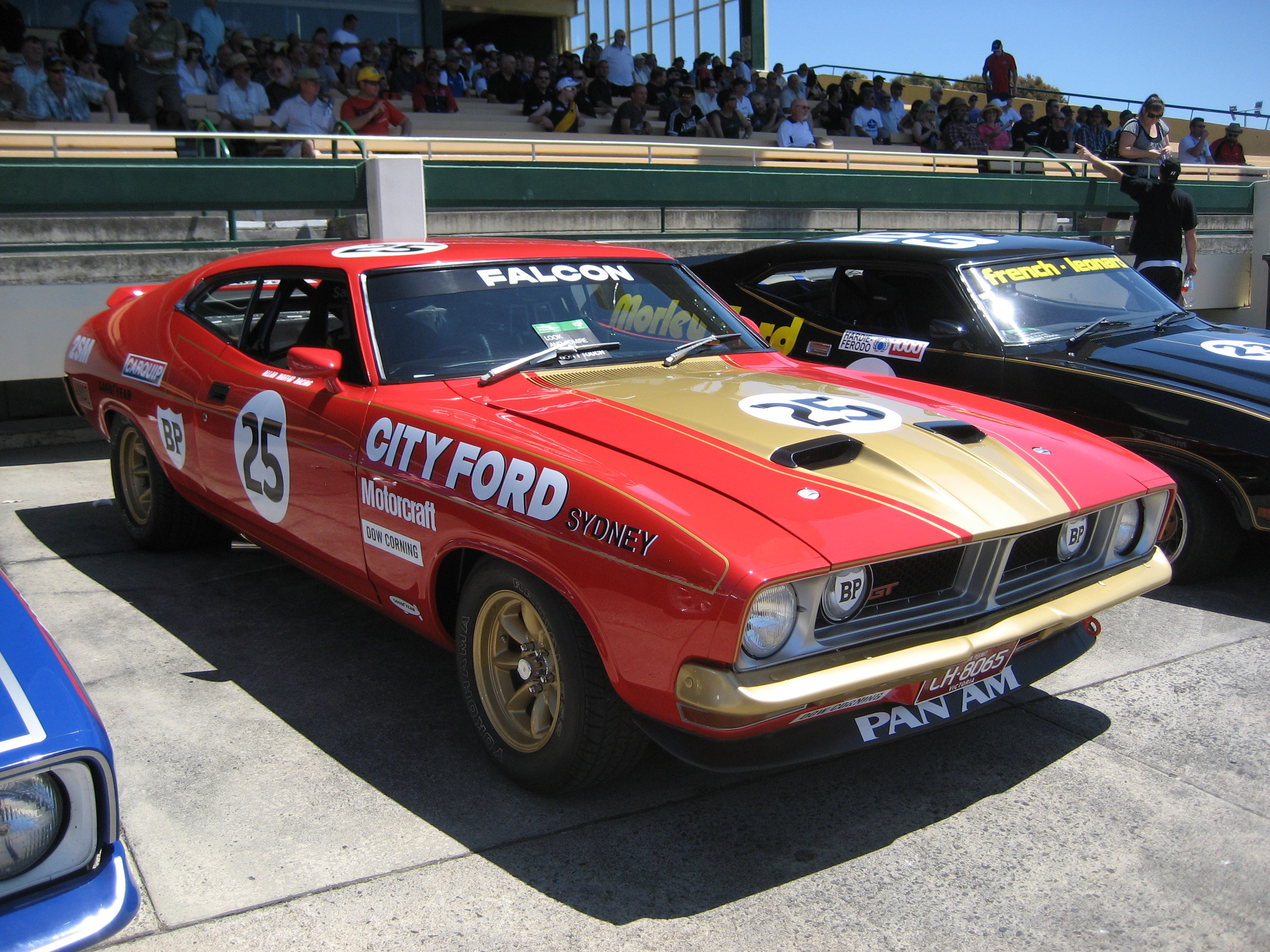 The Blue Brutt 33 car was repainted in Red and Gold in time for the Sandown 250 race in 1975, sponsorship from International Harvester, (the car retired on lap 26), then changing to City Ford in time for Bathurst, (after starting 2nd, again DNF) he did win in Surfers Paradise in November and continuing on the next year, won at Calder, Oran Park and Amaroo Park. On the way to the next round in Adelaide, the car and Transporter were destroyed in a fire. The Moffat Ford Dealer Team livery was introduced just before the Sandown 400